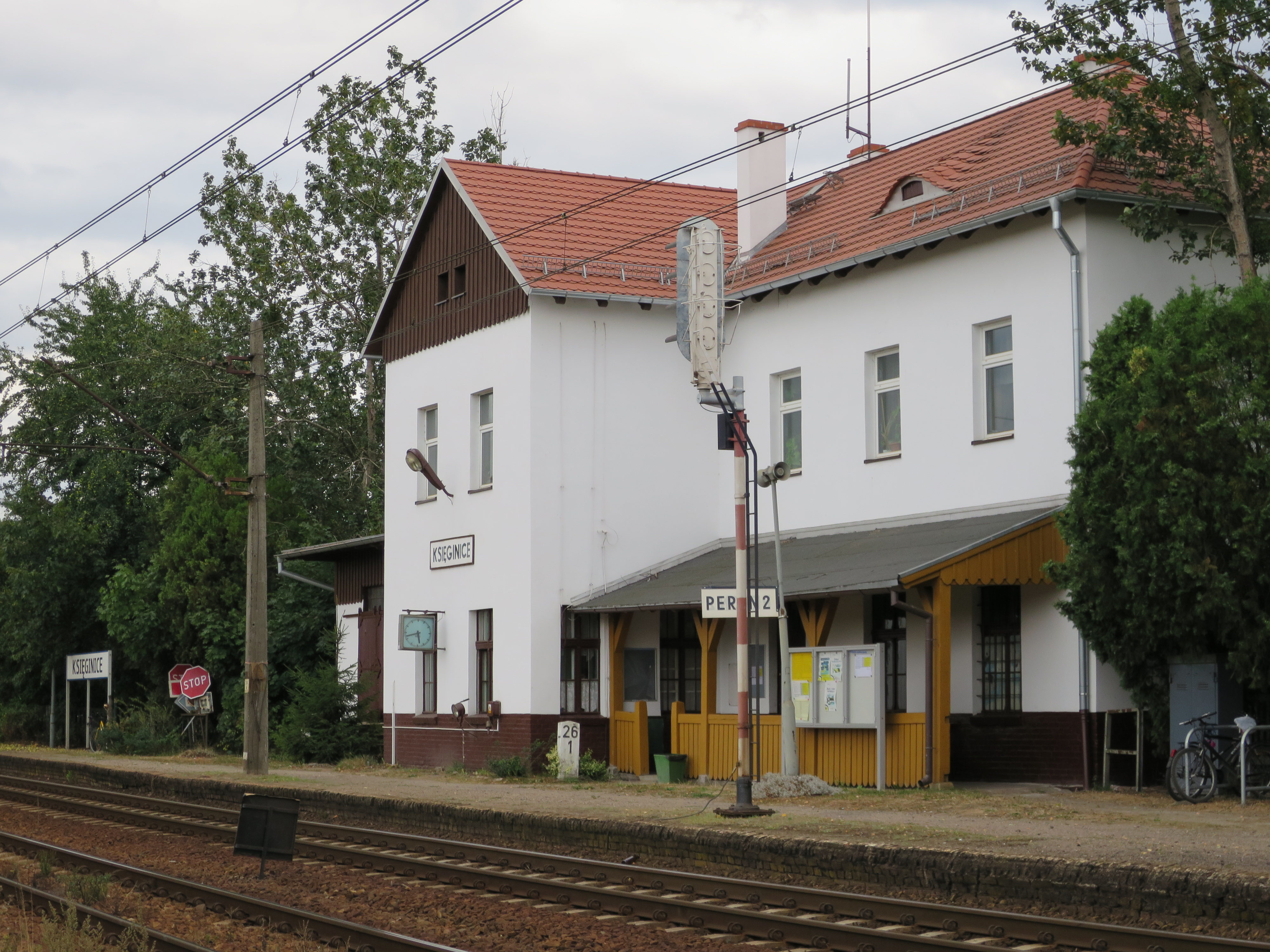 Dworzec Księginice This photo was taken during Railway Wikiexpedition 2015 set up by Wikimedia Polska Association in cooperation with Fundacja Grupy PKP.You can see all photographs in category Wikiekspedycja kolejowa 2015.